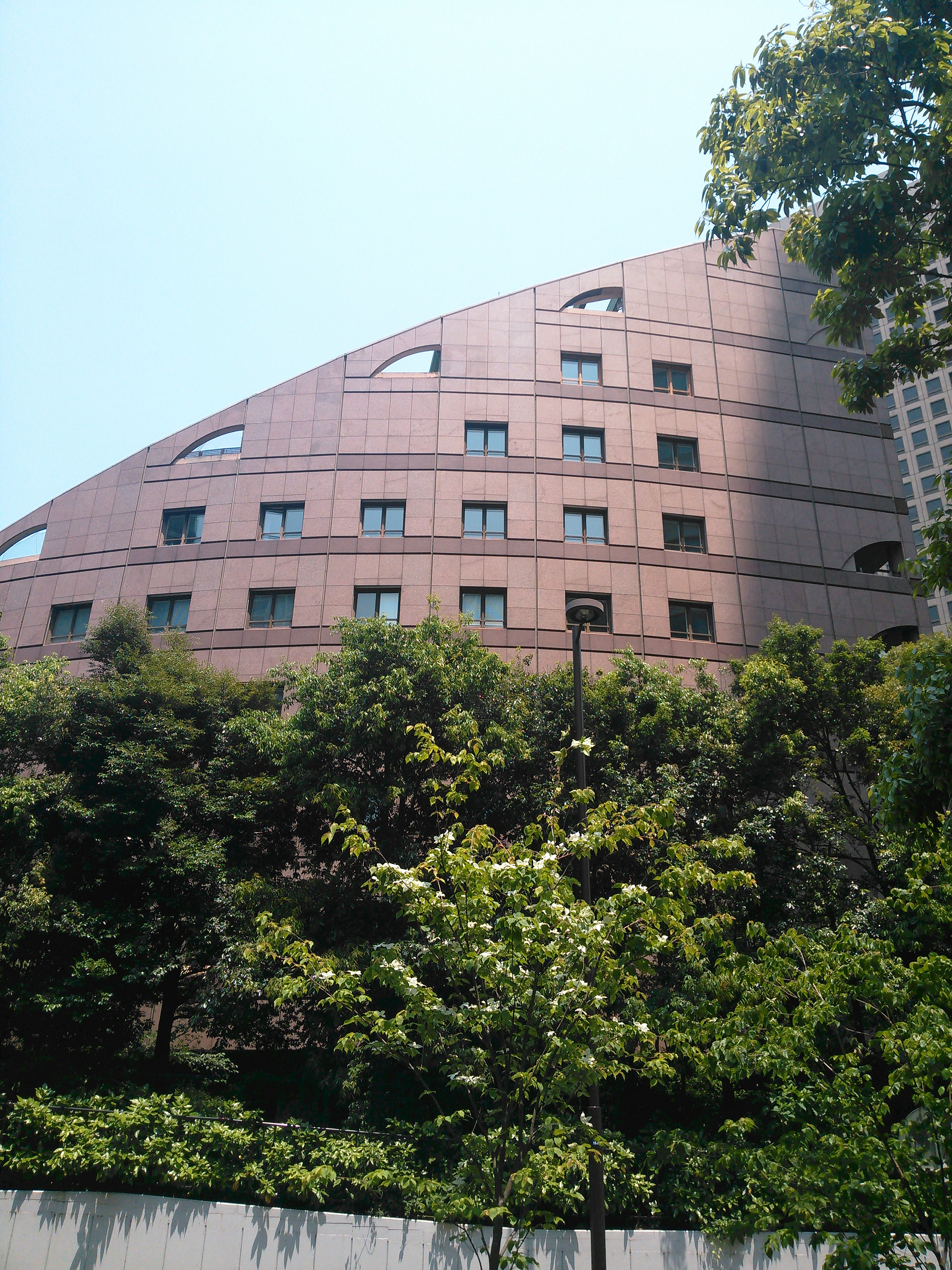 Embassy of Sweden in Tokyo, Japan